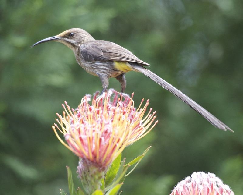 Cape Sugarbird Promerops cafer 4th. October 2009 Moore's End, A proteus farm in Stellenboch, South Africa Distribution